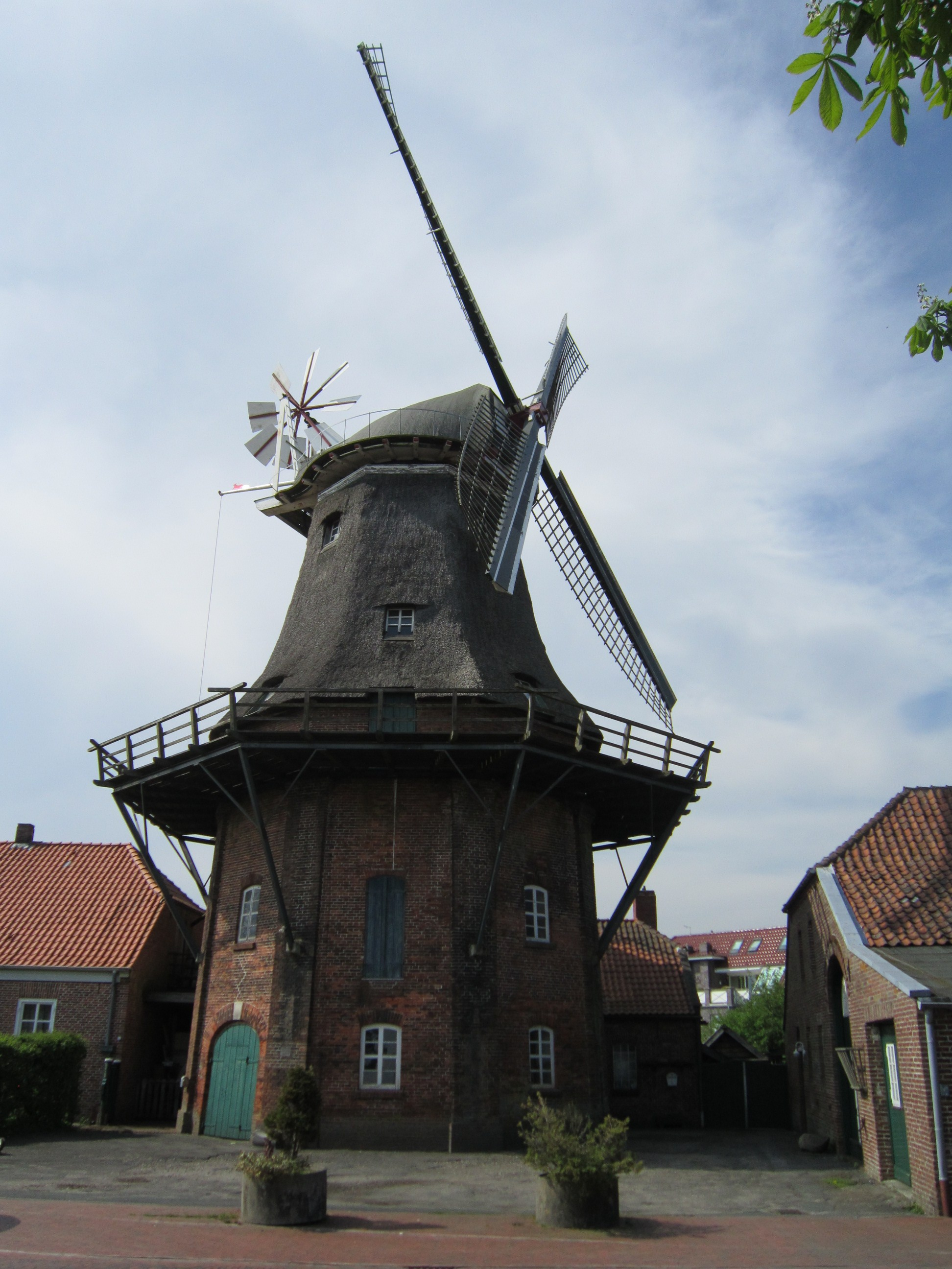 Windmill called "Schlachtmühle" in the centre of Jever (Friesland)